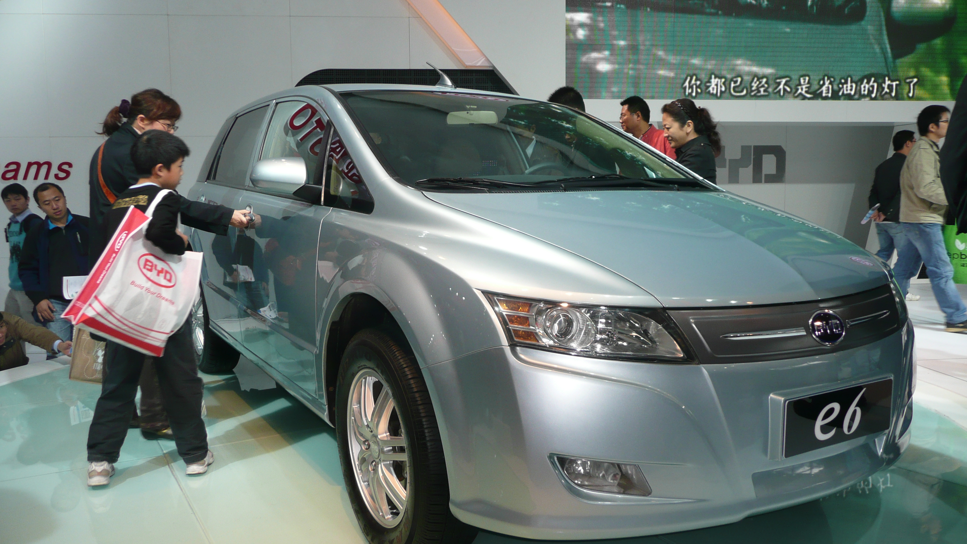 BYD's Electrocar e6 at the Shenzhen High-Tech Fair, November 2009